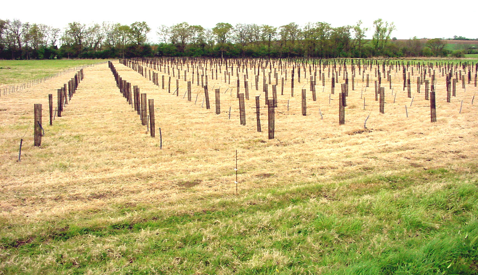 Artificial forestation, near the Forest of Rihoult-Clairmarais, near Saint-Omer, North of France.